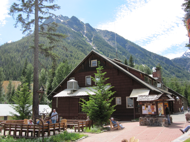 Picture of the exterior of the Holden dining hall, with mountain in the background. (June 2010)